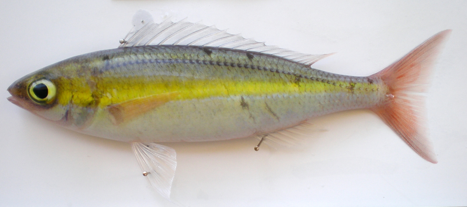 Pentapodus aureofasciatus. From off Nouméa, New Caledonia.